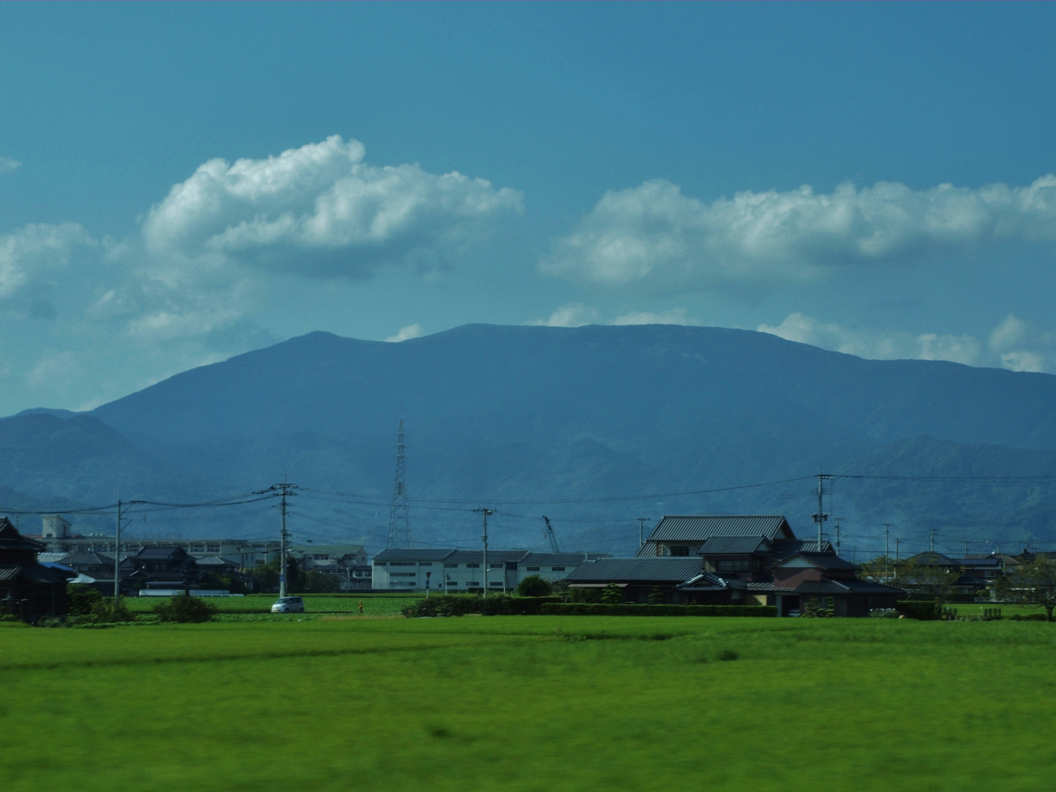 Tenzan as seen from the Nagasaki Main Line